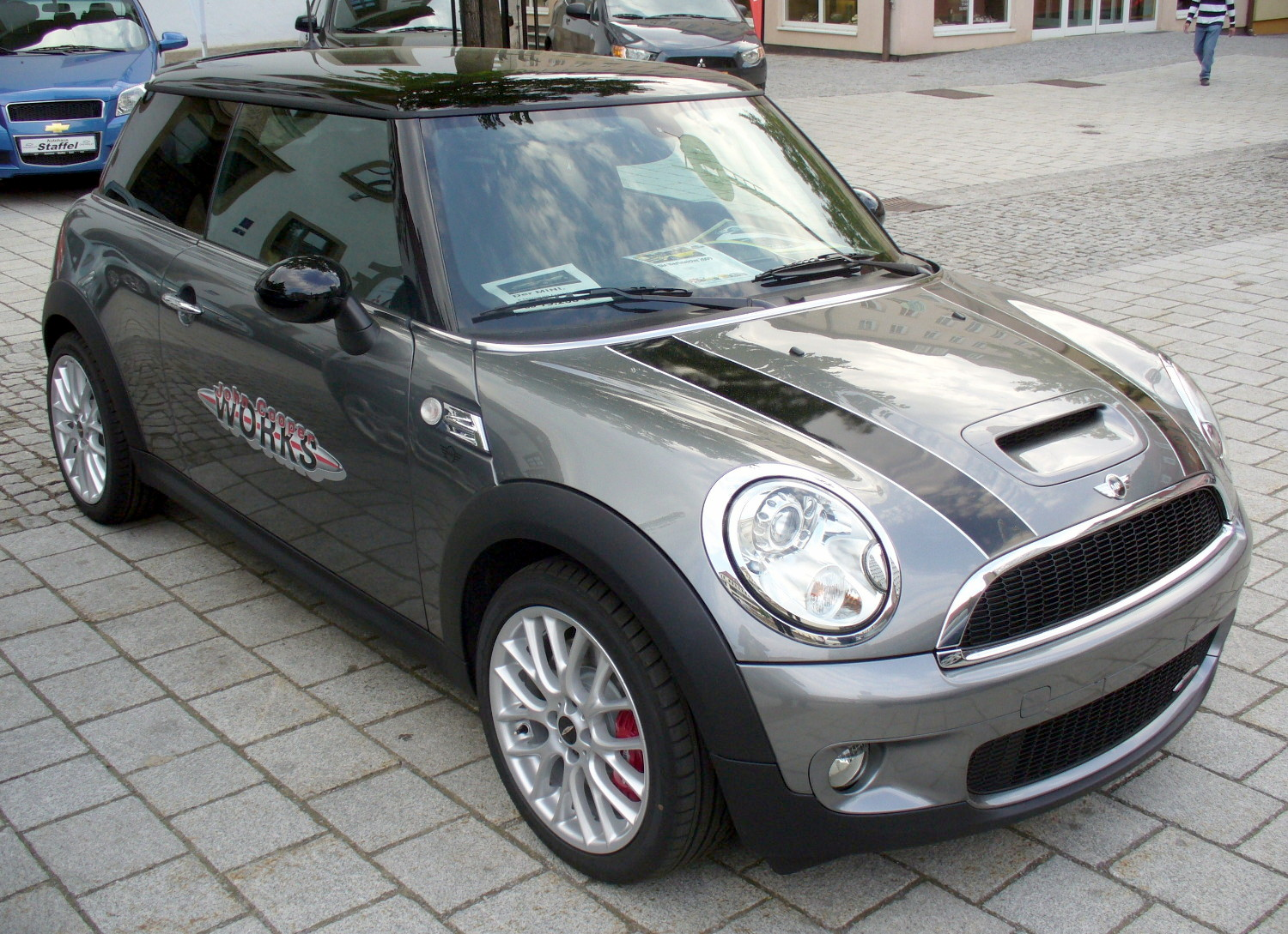 Mini Cooper S JCW